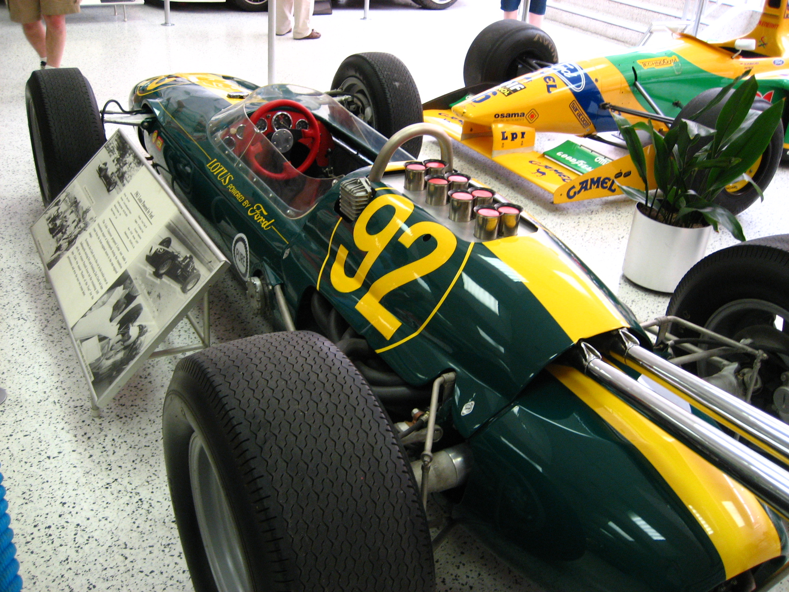 A Lotus 29 at the Indianapolis Motor Speedway Hall of Fame Museum